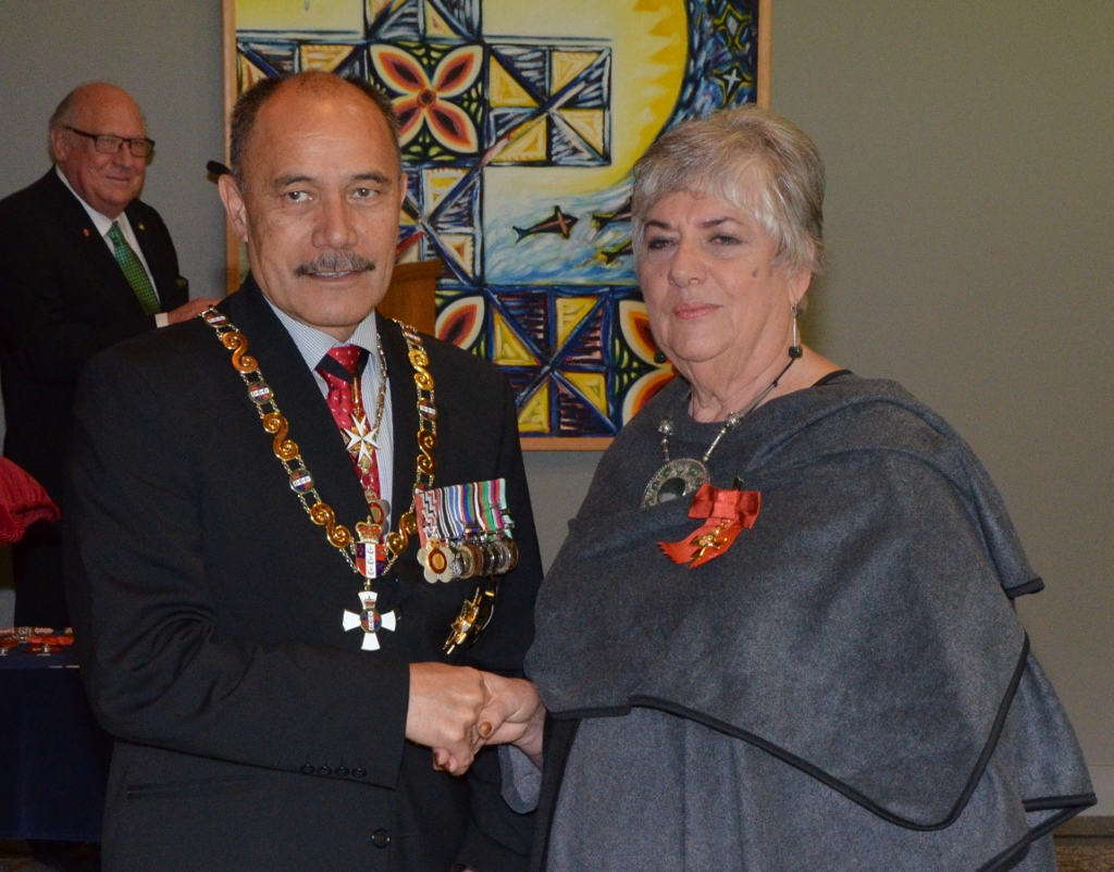 Colleen Urlich, of Dargaville, after her investiture as an Officer of the New Zealand Order of Merit for services to Maori art, by the governor-general, Sir Jerry Mateparae, on 26 August 2015